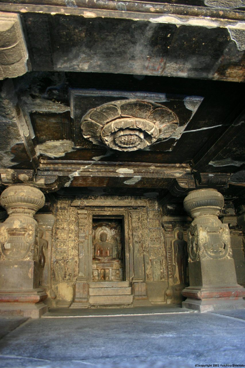 Ellora caves. Cave 32. "the 32nd cave is a shrine with very fine carvings of lotus flower on the ceiling." from Ellora